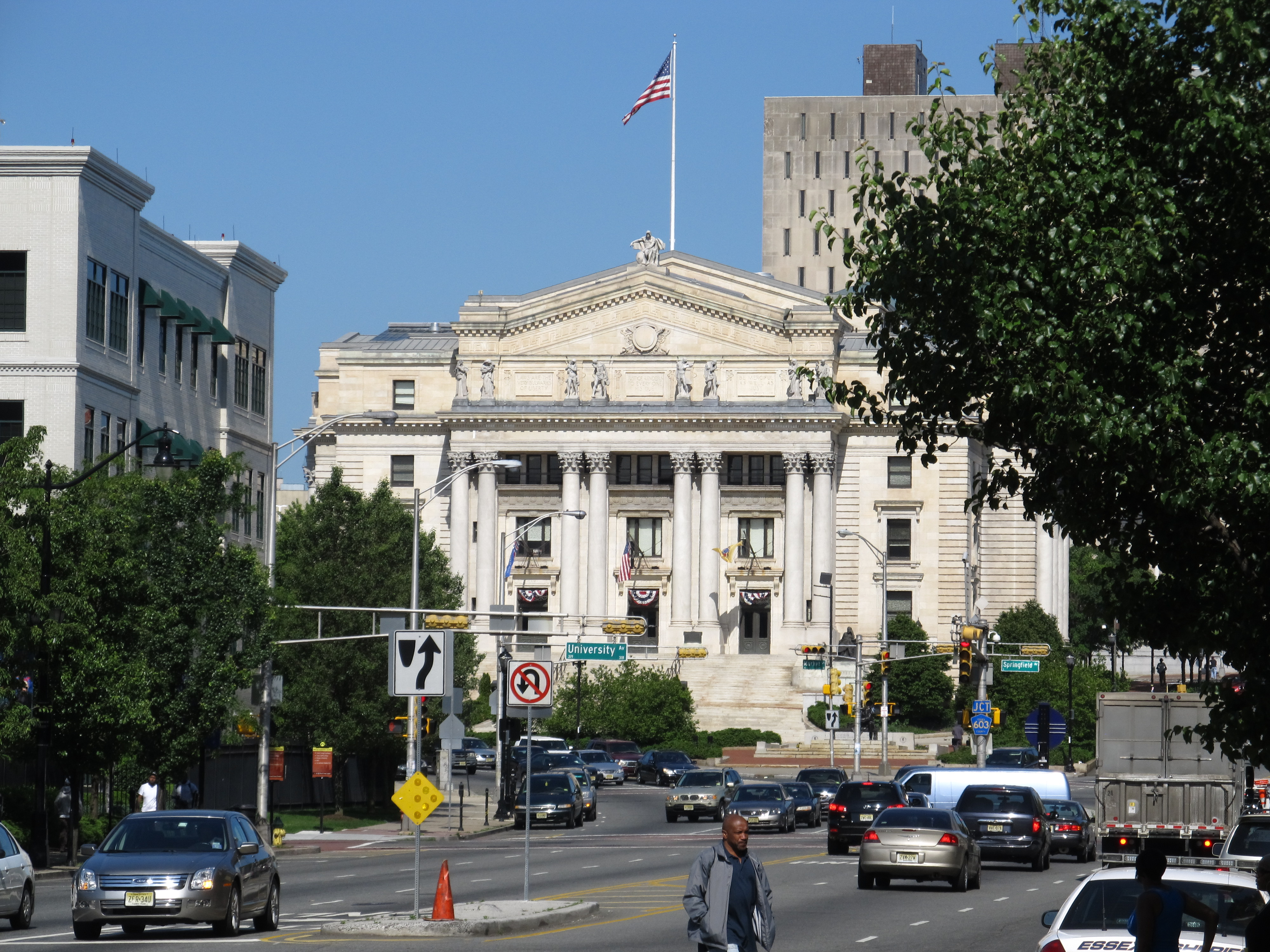 The Essex County Courthouse is located in Newark, New Jersey. It was built in 1904 and was added to the National Register of Historic Places on June 26, 1975. The building, designed by Cass Gilbert, has a four-story rotunda topped with a Tiffany skylight. It features artwork from some of the most well known artists of the American Renaissance period